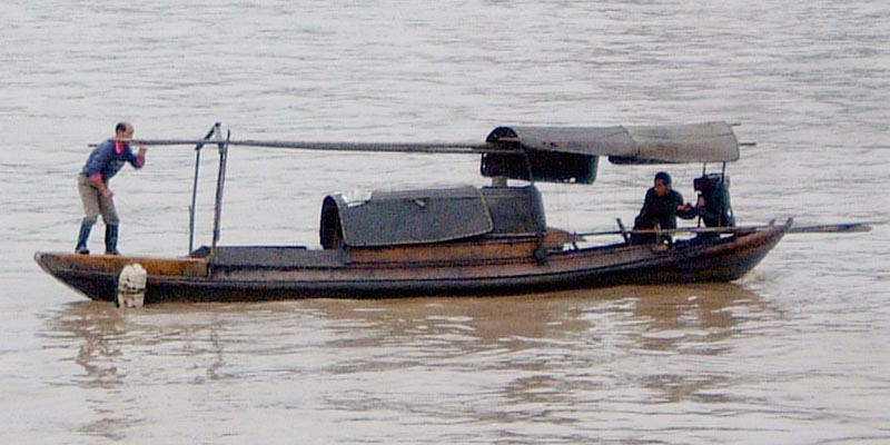 Sampan on the Yangtze River (Chang Jiang). Photo taken late September 2002 by User:Leonard G..